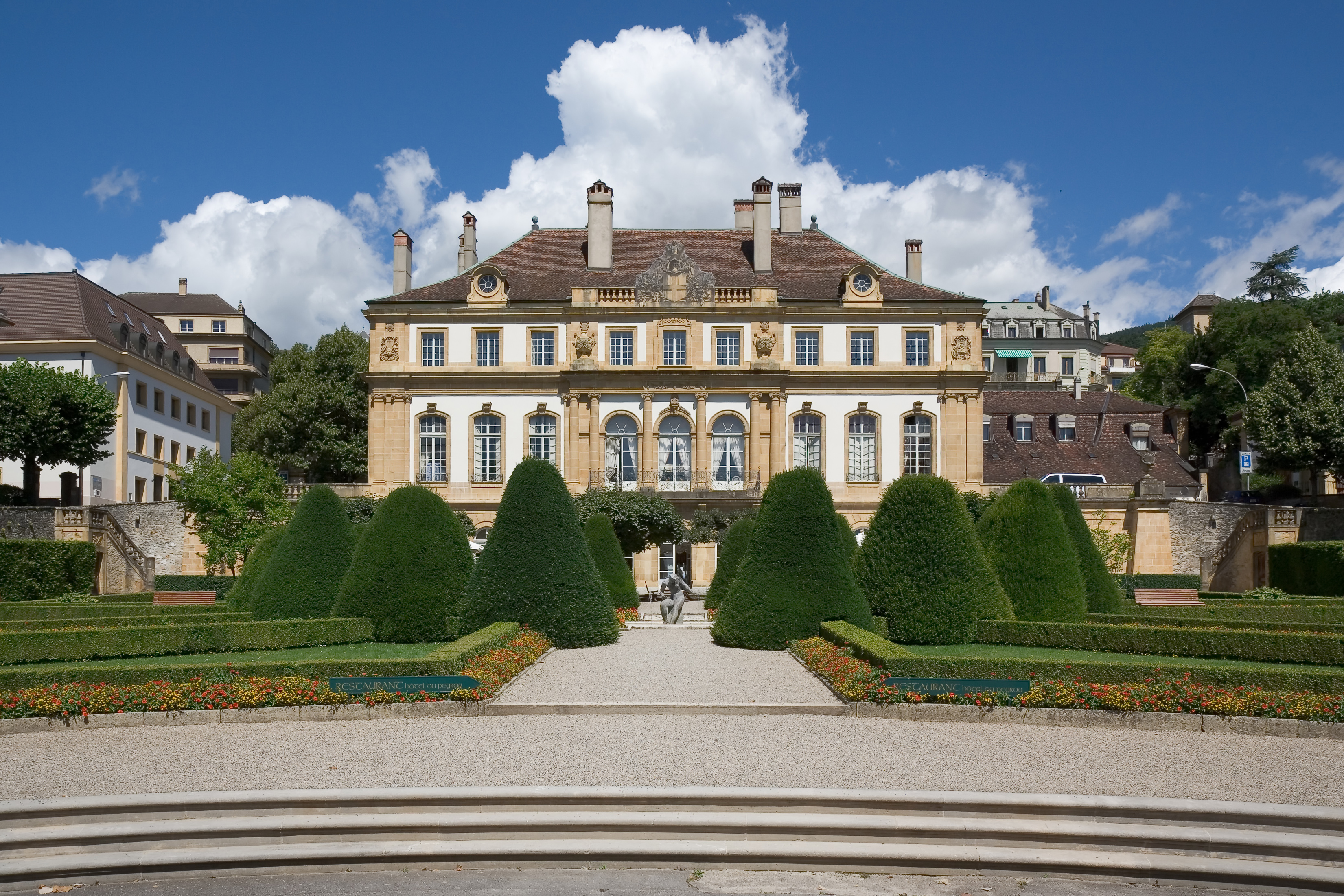 The Hôtel du Peyrou is a building in Neuchâtel, Switzerland. The house was built 1764–1772 and enlarged 1860/61. It is currently used as a restaurant. ↑ Gesellschaft für Schweizerische Kunstgeschichte [Hrsg.]: Inventar der neueren Schweizer Architektur 1850–1920, Bd. 7. Bern : 2000